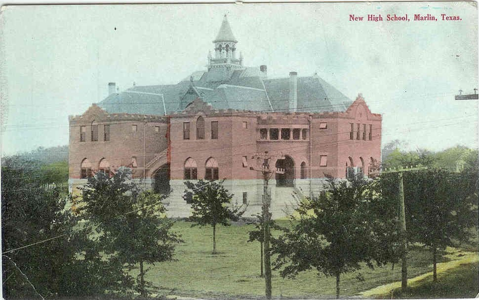 Postcard picture: "New High School" in Marlin.